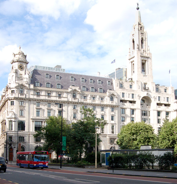 Toronto Dominion Bank building, Finsbury Square, London EC1